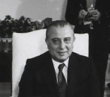 Spyros Kyprianou in Oval Office in 1981, cropped from another photo